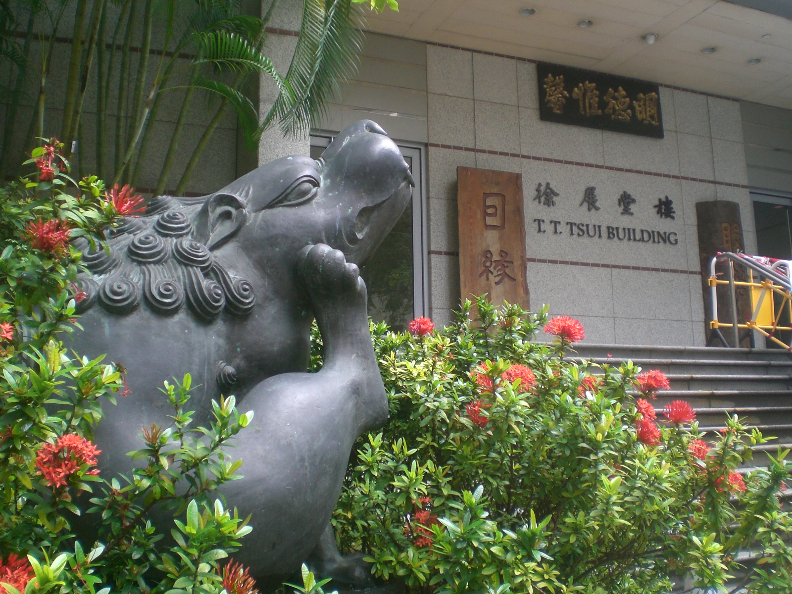 香港大學zh:徐展堂樓香港大學美術博物館入口